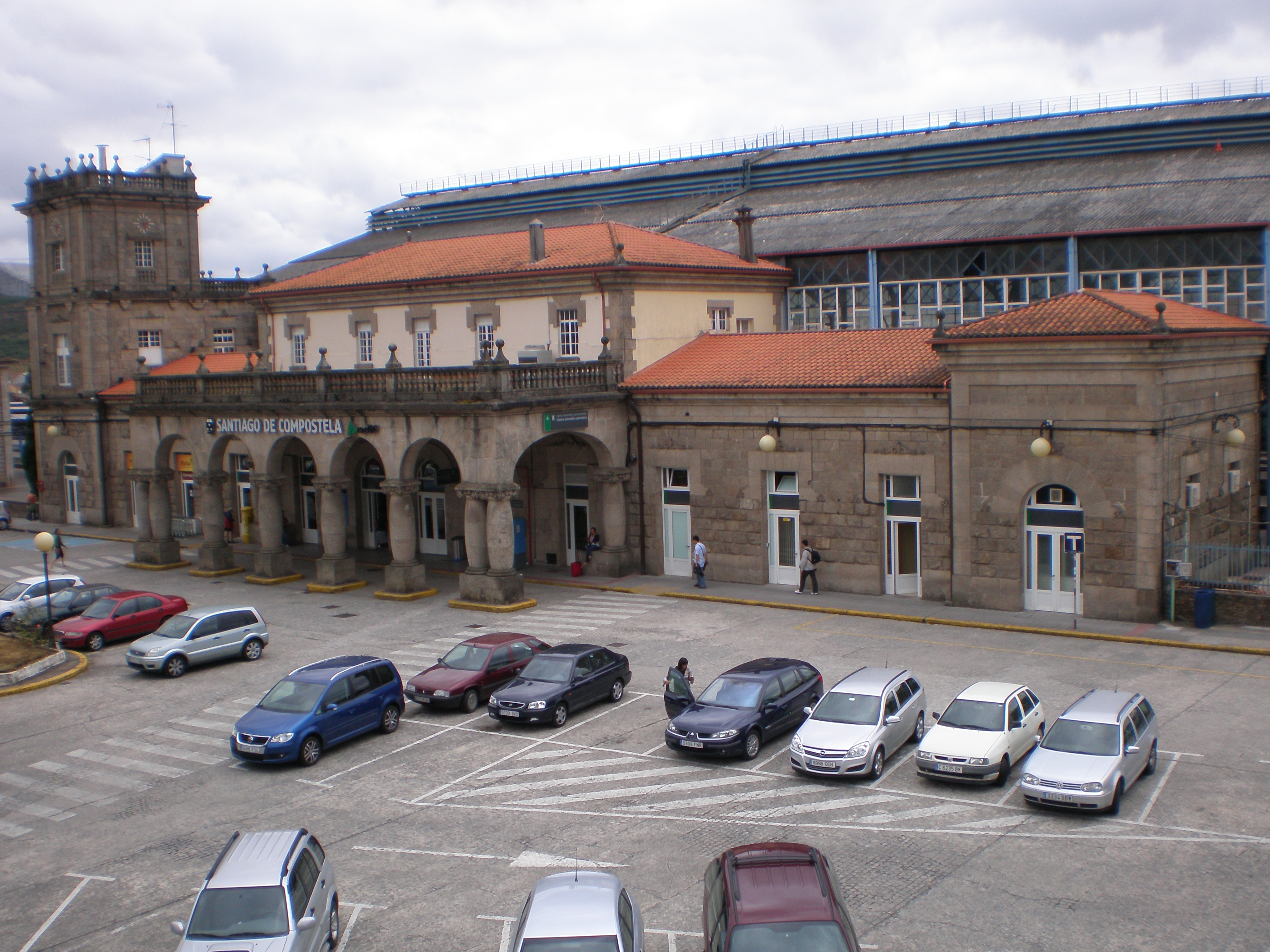 Santiago de Compostela rail station (Spain).